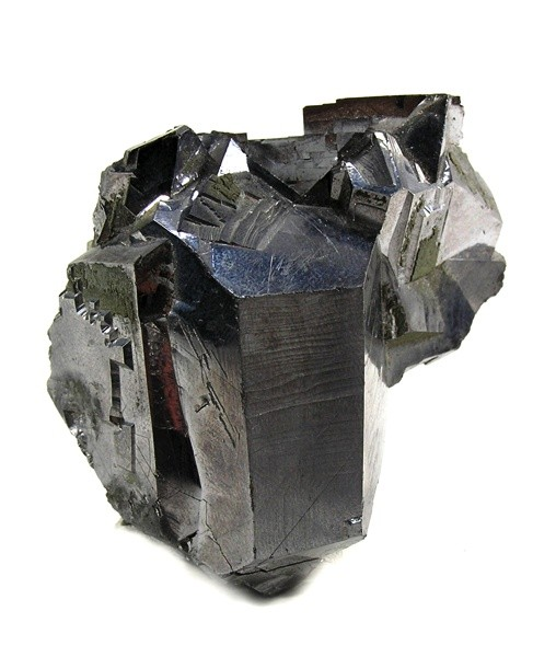 Galena Locality: Naica, Municipio de Saucillo, Chihuahua, Mexico (Locality at ) Look at the superb sharpness and size of the central crystal on this fine Naica galena! In person, the faces shine like a MIRROR. This is actually one large, compound crystal, but for the sake of clarity, that central part (which we are calling the central crystal) measures about 4.7 cm. This old Naica piece is complete on the front, with clean cleavage contacts on the back where removed from the pocket (we have included a photo of the backside). 6.4 x 5.1 x 5.0cm